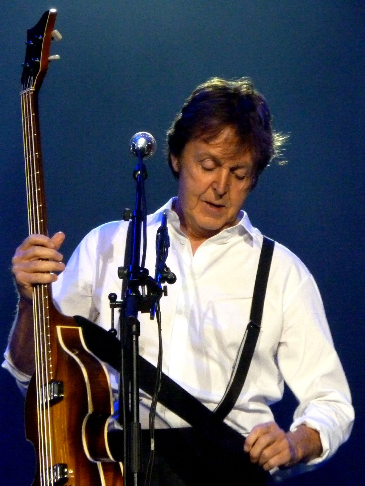 Paul McCartney performing in Dublin.